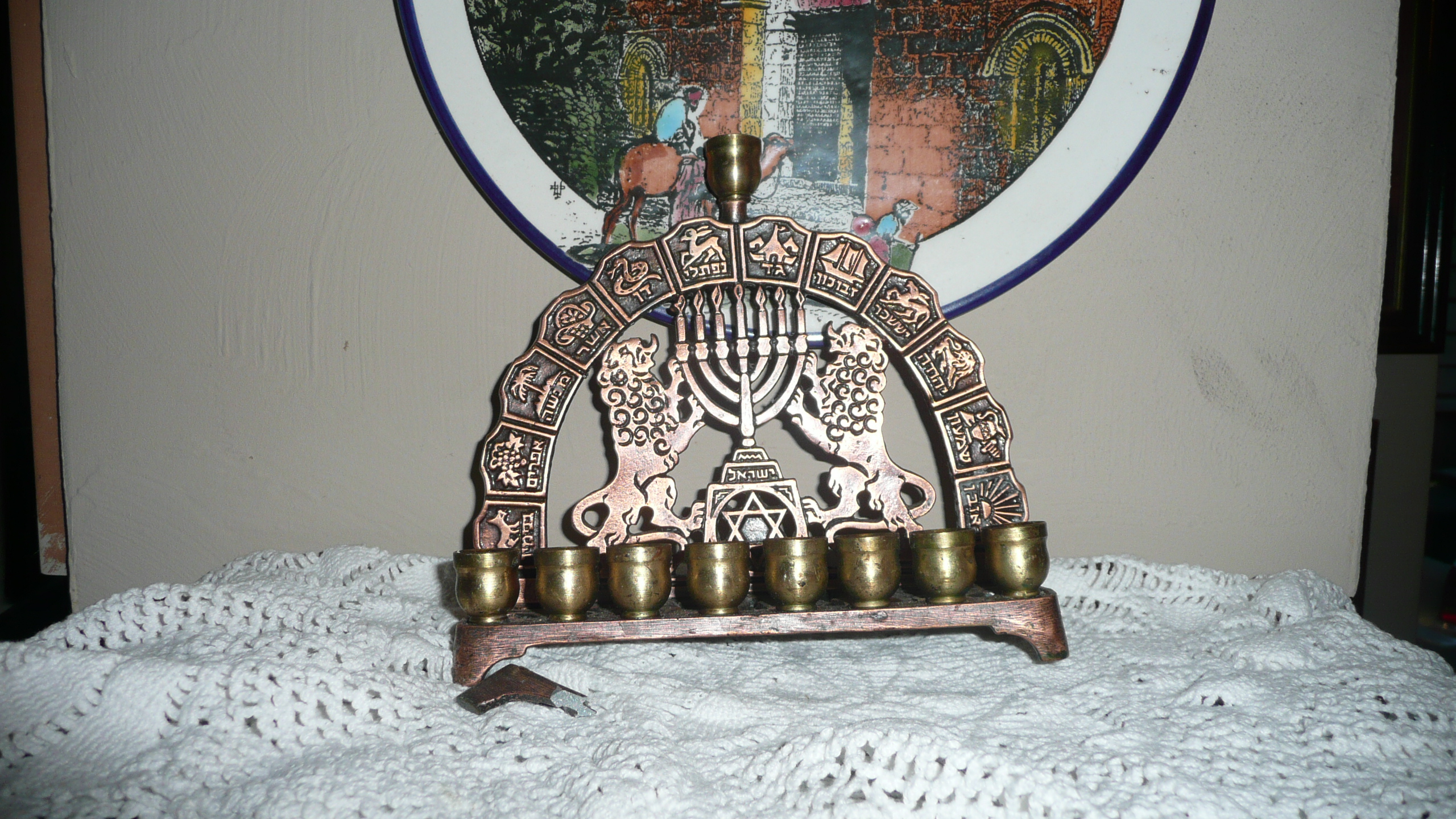 Hanukkah Menorah in the Anatewka restaurant in Lodz (Poland)